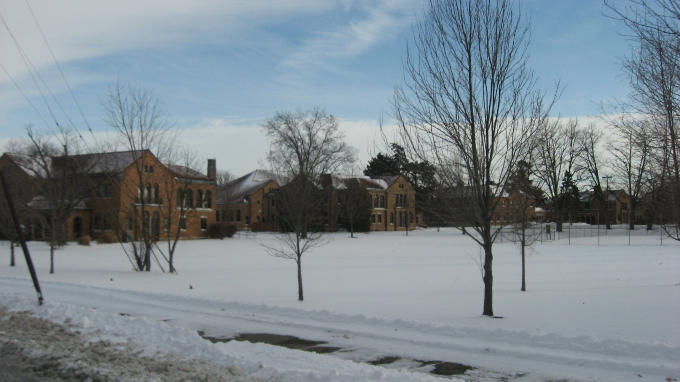 Buildings on the complex of St. Vincent Villa (now a Protestant Christian school), located at 2000 N. Wells Street in Fort Wayne, Indiana, United States. Built in 1932, the complex is listed on the National Register of Historic Places.